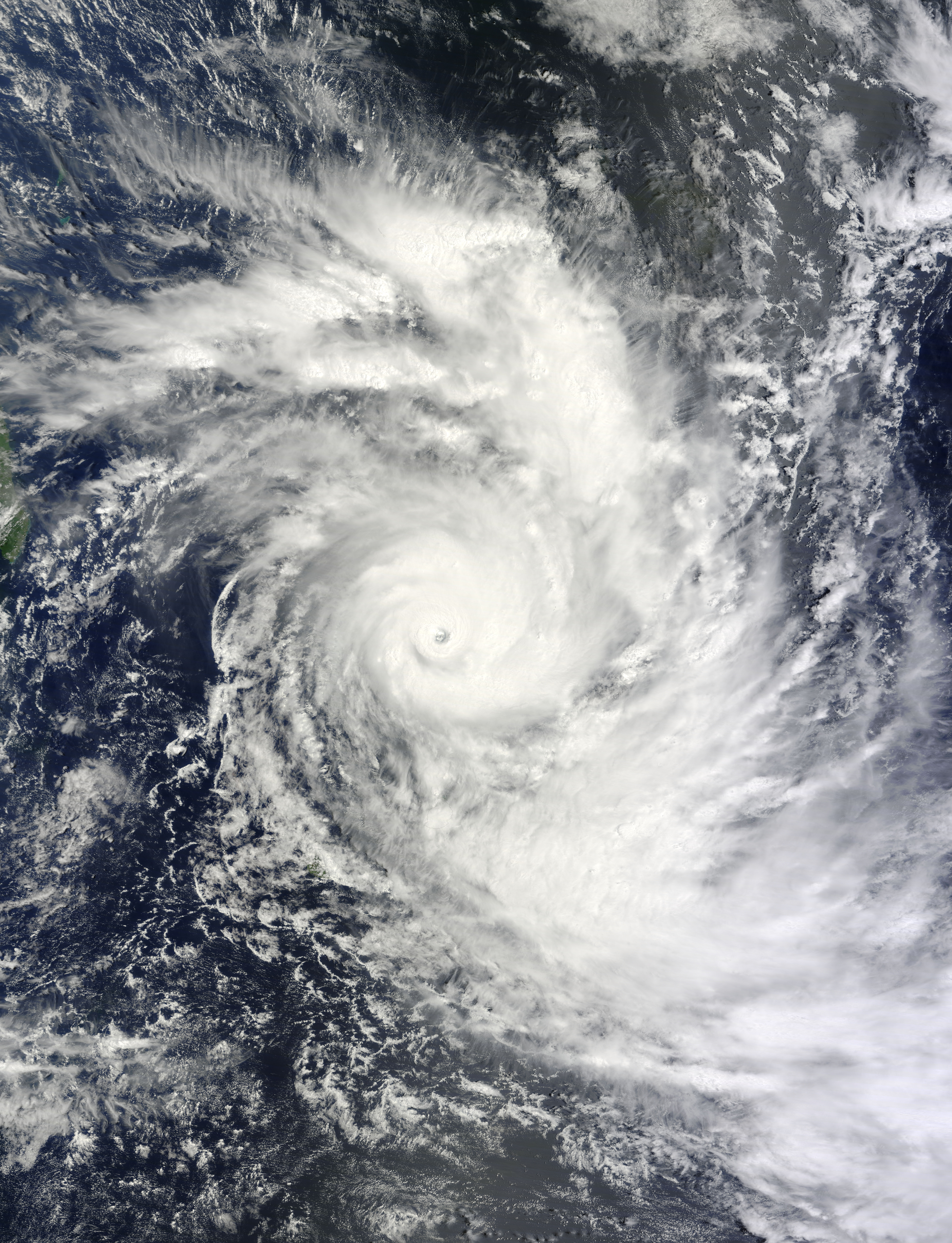 Very Intense Tropical Cyclone Bansi at peak intensity and north of Mauritius on 13 January 2015.